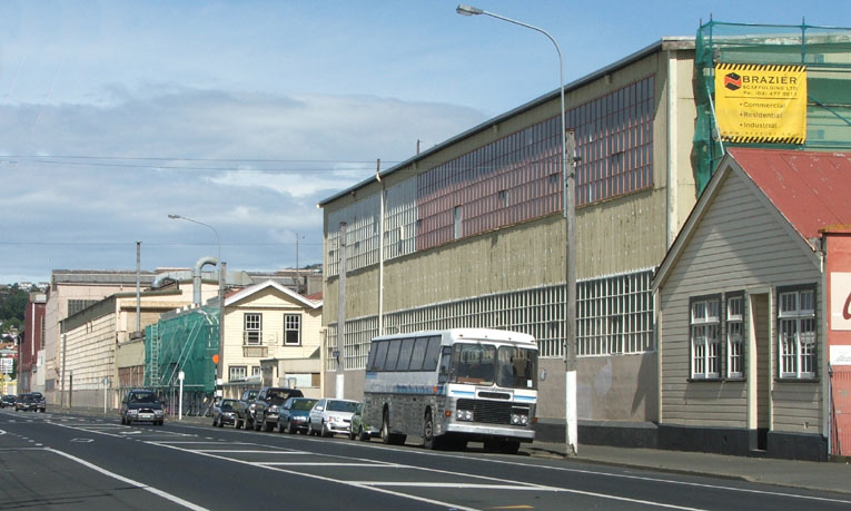 Hillside Railway Workshops in South Dunedin, New Zealand. Photograph taken by James Dignan (User:Grutness) in November 2007.